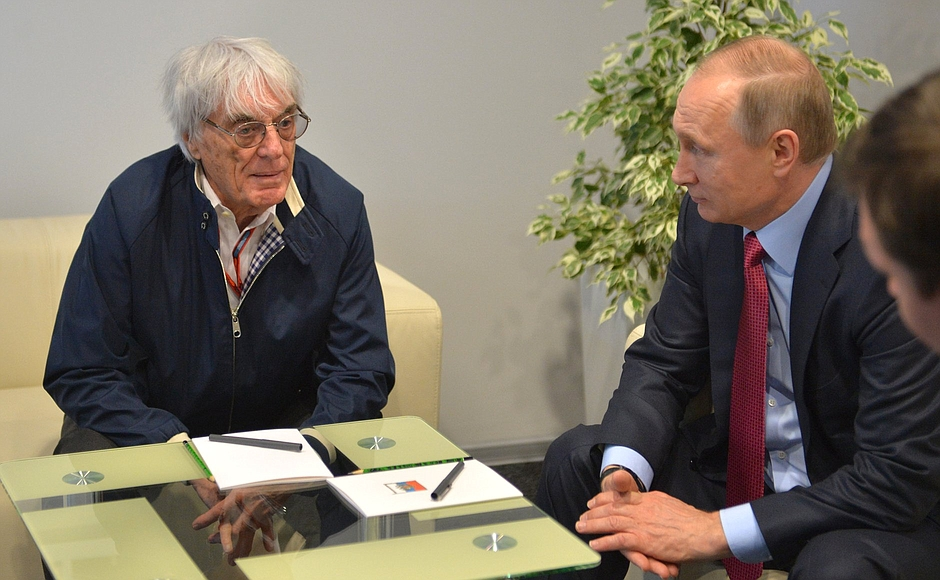 Ecclestone and Putin at the 2016 Russian Grand Prix